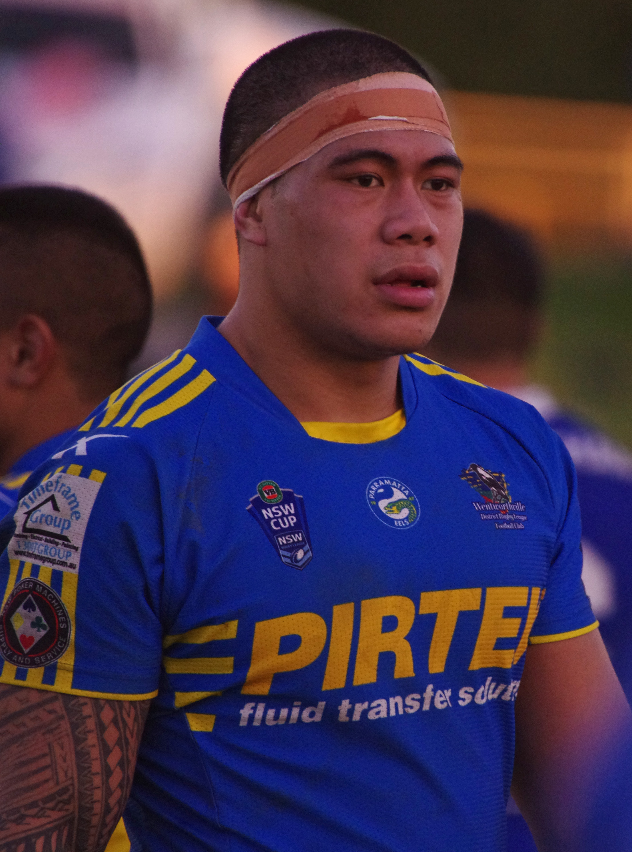 Joseph Ualesi